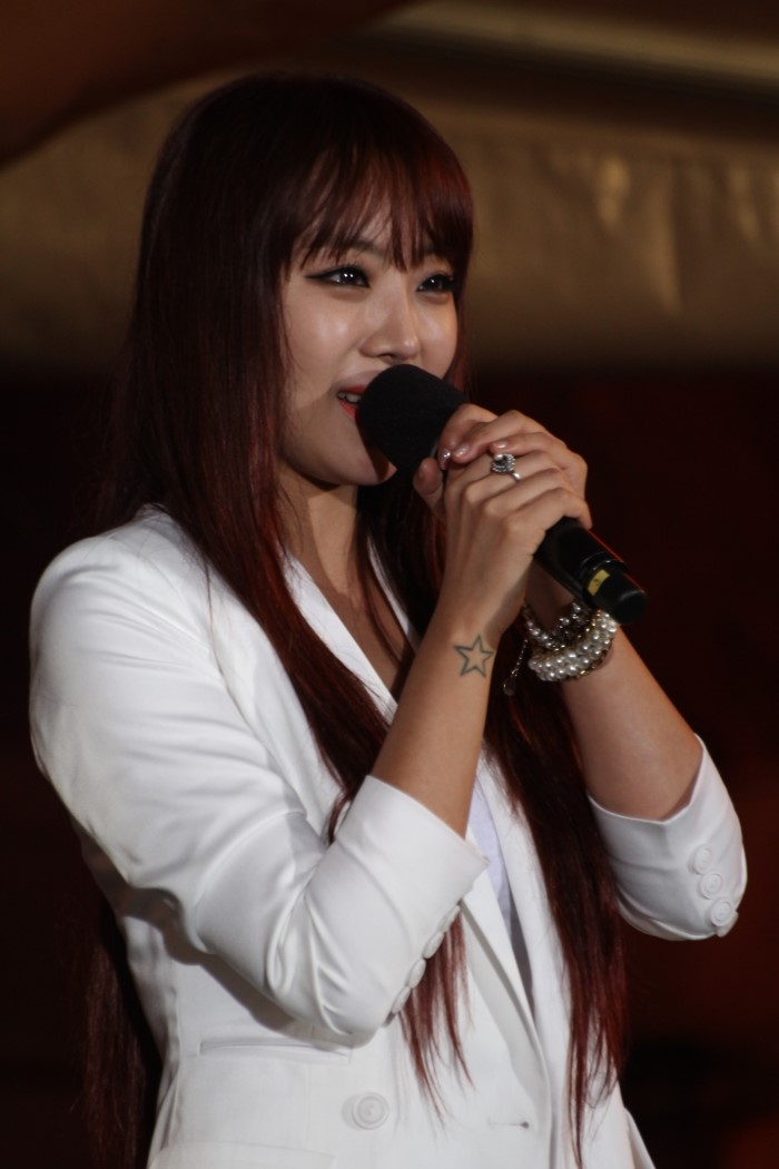 Narsha in July 10, 2012, during the Expo 2012 Yeosu.